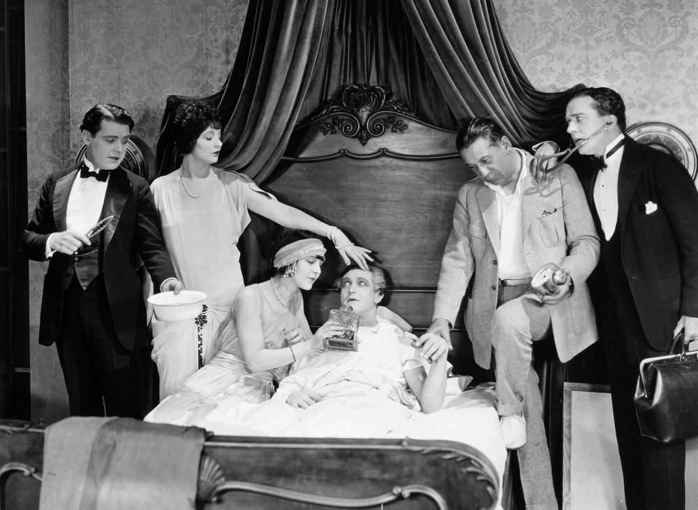 Betty Blythe and Lou Tellegen in a scene from The Breath of Scandal (1924)